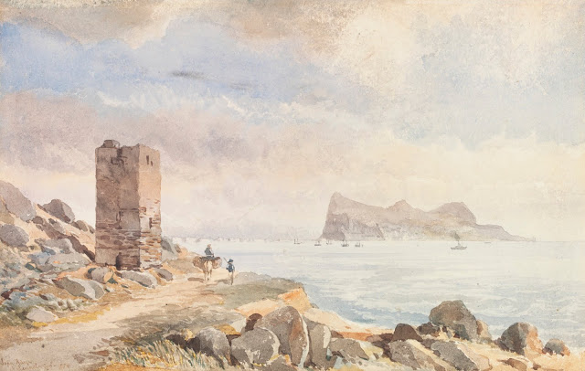 1855- John Miller Adye - Governor of Gibraltar at Crimea. General Sir John Miller Adye GCB (1 November 1819 – 26 August 1900) was a British general and artist!